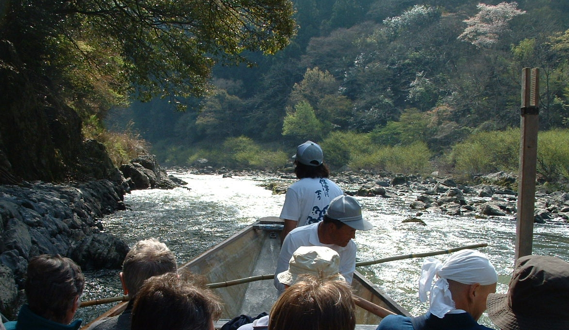 Boat on the Hozu River Photograph by Gakuro